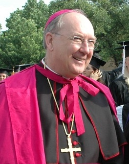 Bishop Kevin Farrell at the University of Dallas Graduation in 2007.